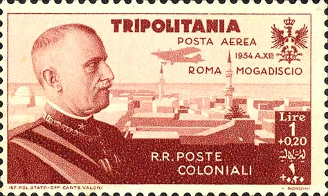 Victor Emmanuel III of Italy in Tripoli.